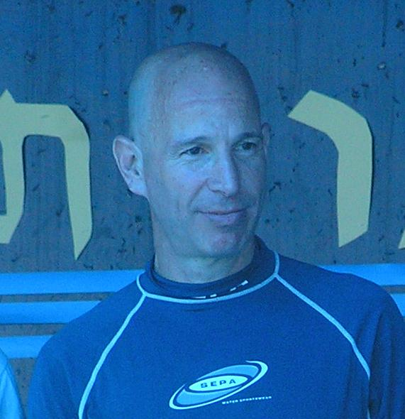 Loni hertzikovich